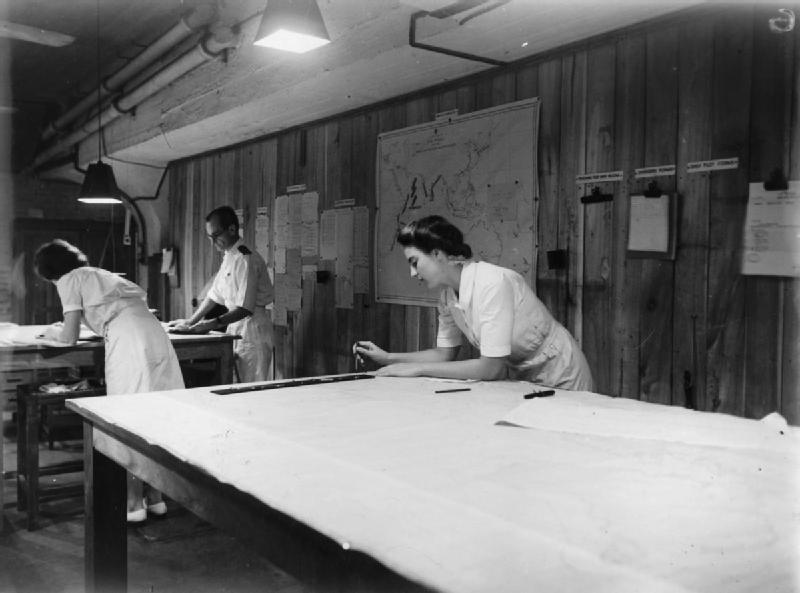 Womens Royal Naval Service in Ceylon, 1943 Wren M Cooper, of London, at work plotting out the course of a ship on a chart in a Ceylon plotting room.